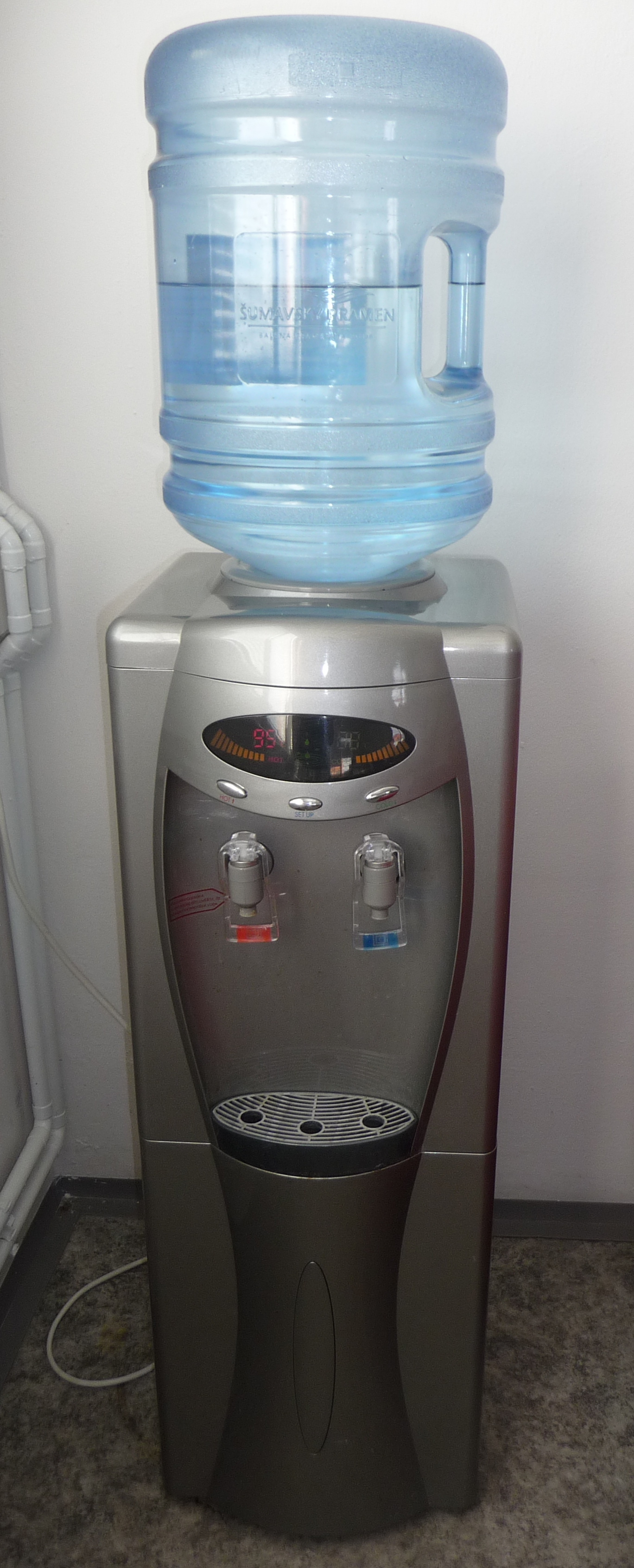 Watercooler with water "Šumava stream"